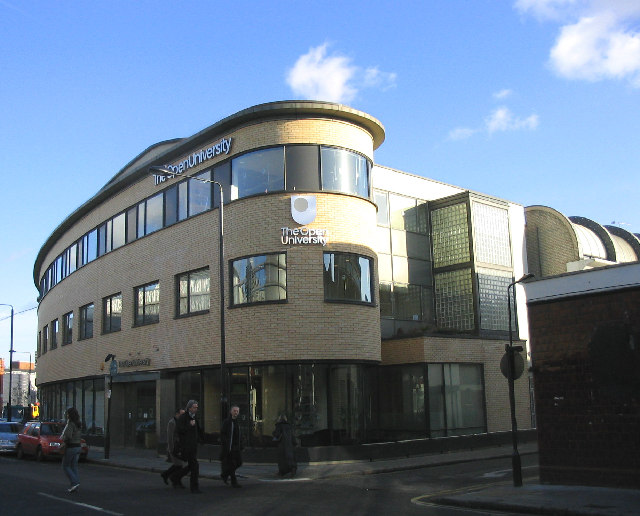 The Open University in London